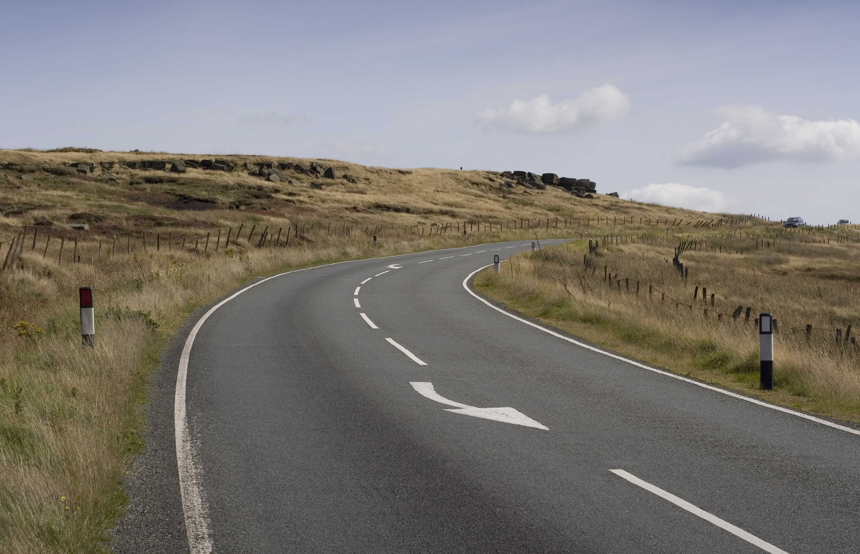 The A635 Holmfirth Road passes by Hollin Brown Knoll on Saddleworth Moor, Saddleworth, Greater Manchester, England. The rocks in the distance were mentioned by murderer Myra Hindley as visible during the burial of victim Pauline Reade.